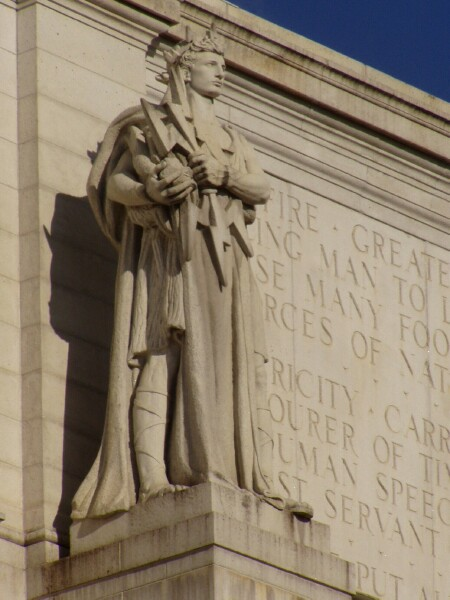 Statue by Louis St. Gaudens, outside Union Station in Washington